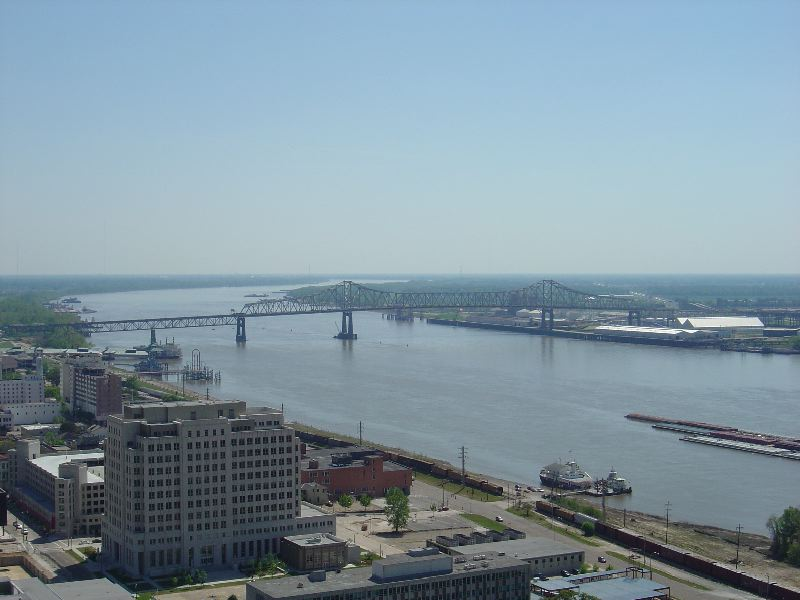 View of the Horace Wilkinson Bridge (I-10) across the Mississippi from the Louisiana Capitol